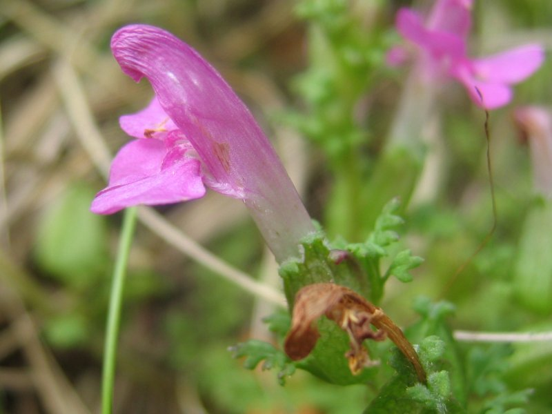 Wald-Läusekraut Pedicularis sylvatica, Zingst